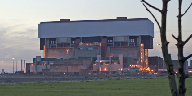 Heysham Power Station stage 2 AGR